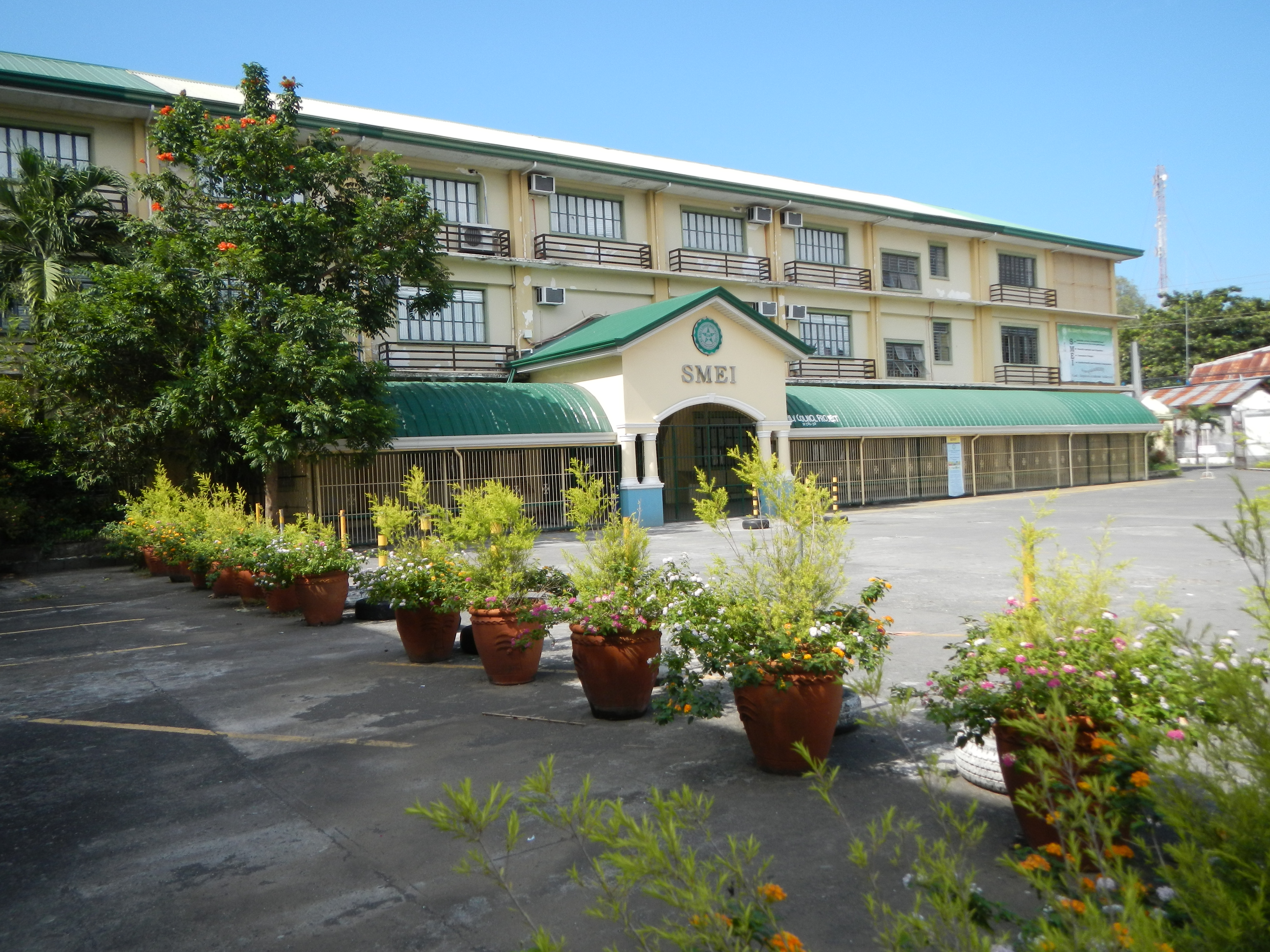 Upload Wizard photos of - the Town Proper, Centro, downtown and junction, crossing and Welcome Arch of - of Lemery, Batangas, downtown, crossing - downtown - Lemery, Batangas[1] near the 8-kilometer Pansipit River [2] (a short river located in the Batangas province of the Philippines, the sole drainage outlet of Taal Lake, which empties to Balayan Bay. The river stretches about 9 kilometres (5.6 mi) passing along the towns of Agoncillo, Lemery, San Nicolas and Taal serving as border between the communities. It has a very narrow entrance from Taal Lake [3] [4] 13° 53' 48.28" N 120° 54' 46.32" E[5] [6]Coordinates: 13°52'40"N 120°55'2"E [7]13° 55' 37.15" N 120° 56' 46.21" E [8] Summer heat arrives in Lemery, Batangas [9] Batangas tilapia breeders fight for survival) and the - Lemery Municipal Hall[10] Coordinates: 13°53'0"N 120°54'50"E St. Mary's Educational Institute [11] Coordinates: 13°52'59"N 120°54'47"E Saint Roch Parish Church of Lemery [12] Vicariate II – St. John Maria Vianney - belongs to the [13] Roman Catholic Archdiocese of Lipa.